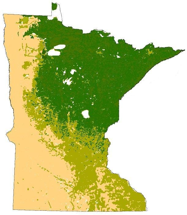 An overview of the three main biomes of Minnesota, prior to European settlement. The yellow is tallgrass prairie, the light/olive green is the eastern deciduous forest, and dark green is the northern boreal forest.